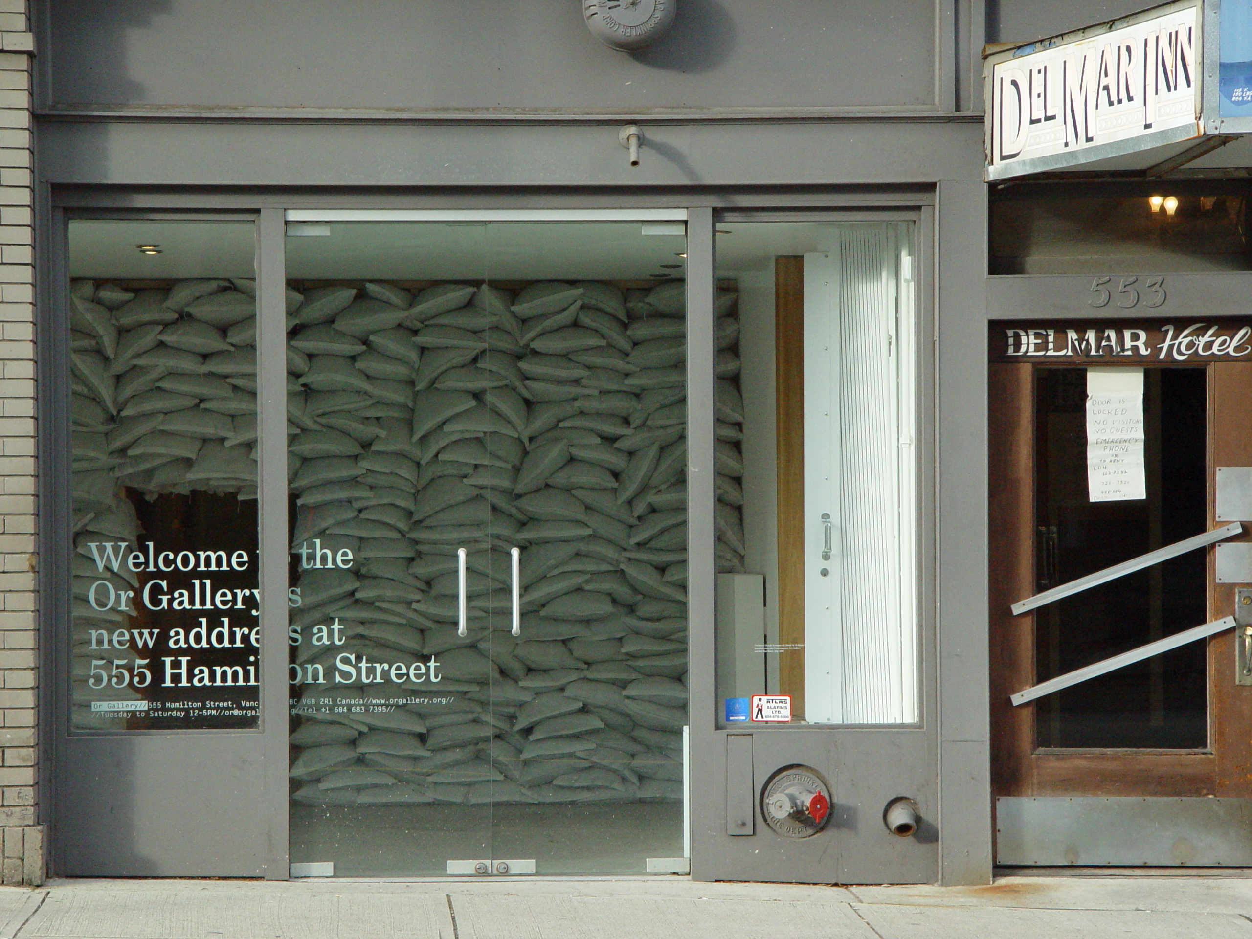 The Or Gallery, 555 Hamilton Street